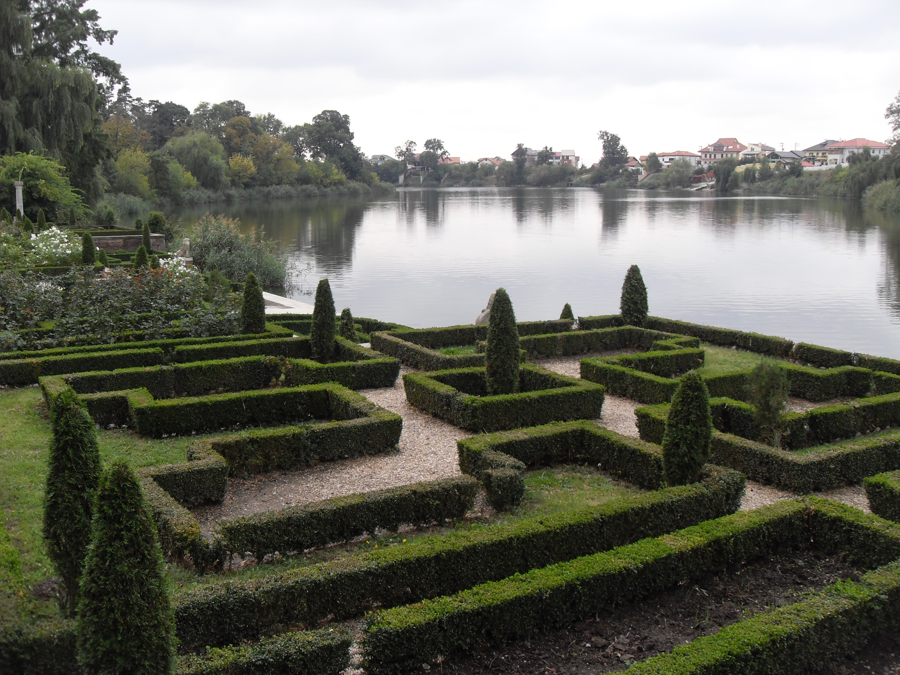 Mogoşoaia Palace is situated about 10 kilometres from Bucharest, Romania. It was built between 1698-1702 by Constantin Brâncoveanu in what is called the Romanian Renaissance style or Brâncovenesc style, a combination of Venetian and Ottoman elements. The palace bears the name of the widow of the Romanian boyar Mogoş, who owned the land it was built on. The Palace was to a large extent rebuilt in the 1920s by Marthe Bibesco.